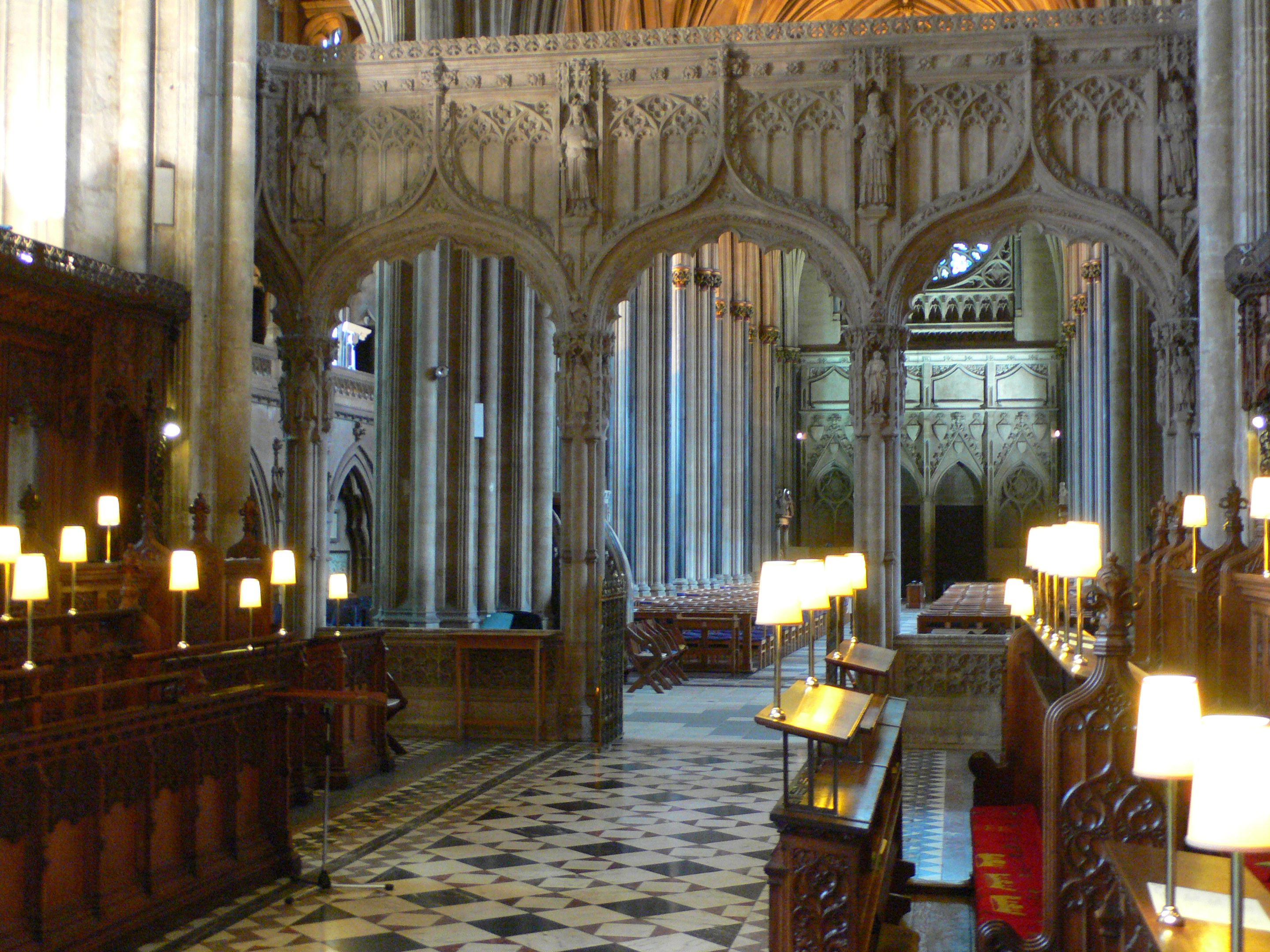 This photo links to my blog This photo is licenced under Creative commons for use including commercial on condition that you link back to or credit See my profile for more detail.